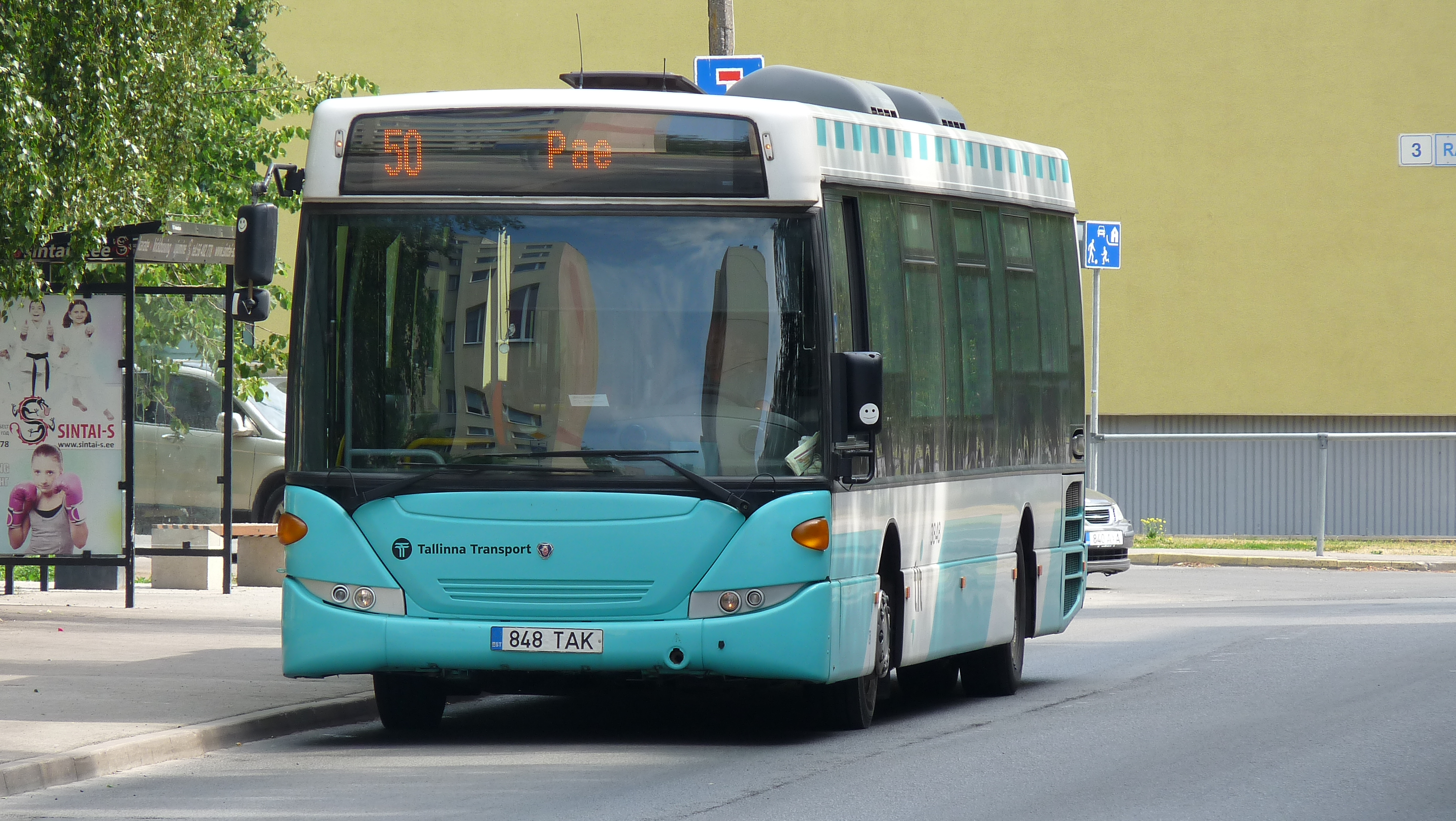 Public bus in Tallinn, Estonia